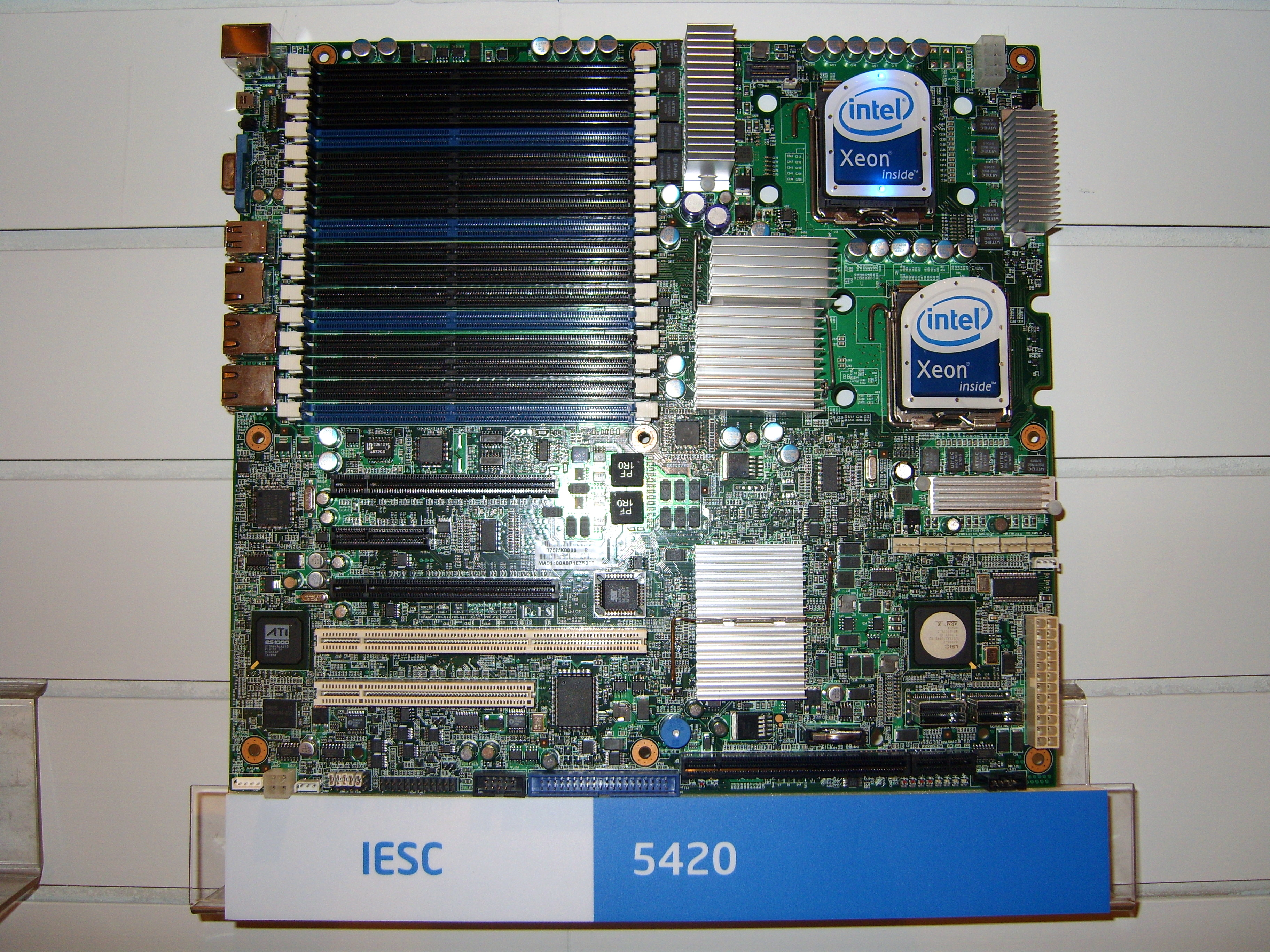 Intel 45nm "Penryn" Technology Processor Launch in Taiwan: Inventec Enterprise System Corp. 5420 server motherboard.中文（台灣）: 英立達科技的5420伺服器專用主機板。